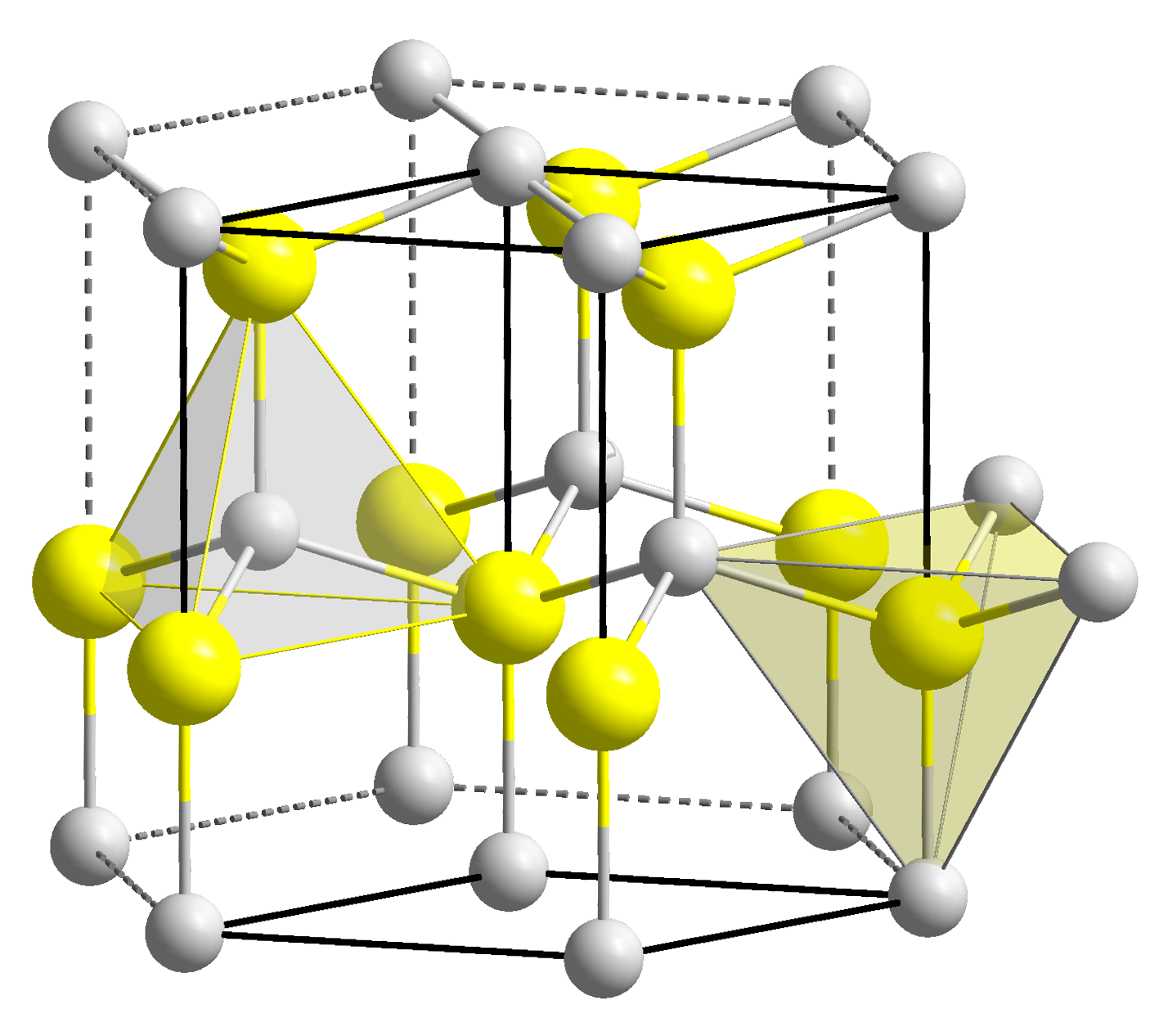 Crystal structure of ZnS (wurtzite) with coordination polyhedra